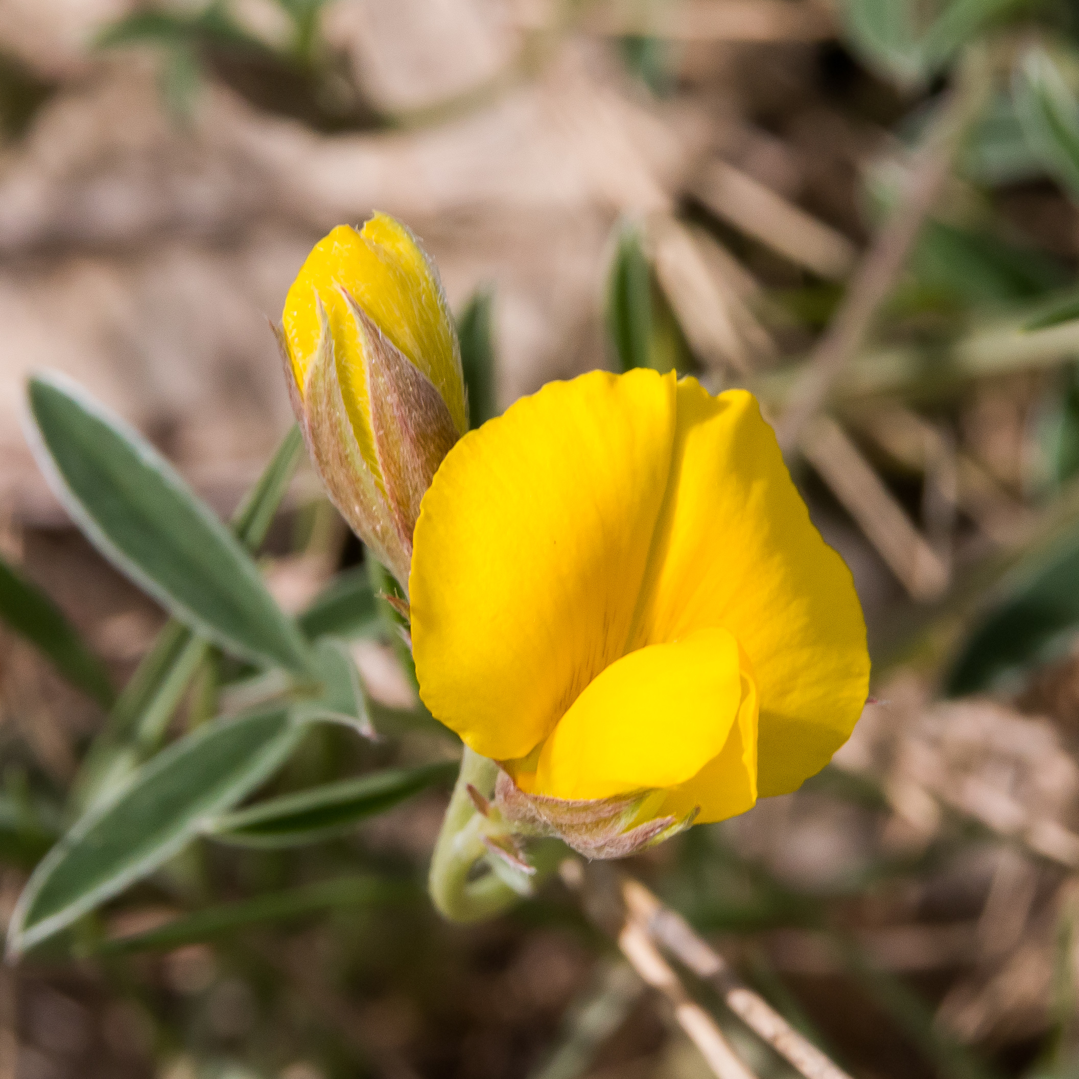 Argyrolobium zanonii flower.